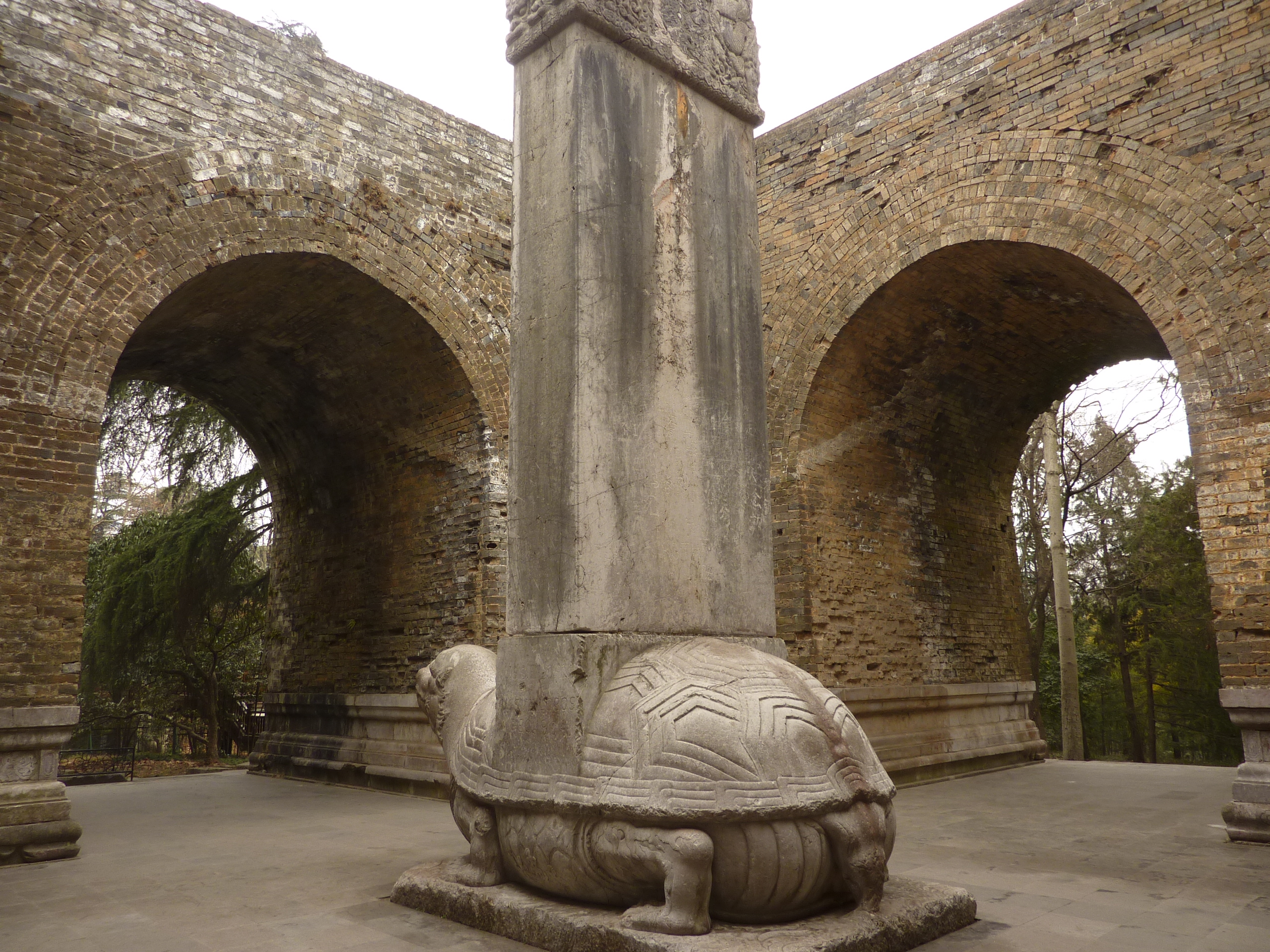 Inside the Sifangcheng Pavilion of Ming Xiaoling. The great bixi tortoise, holding the Shendong Shengde stele honoring of the Hongwu Emperor. Some of the photos are taken from the same point, and are meant to be assembled into a wider-angle ("panoramic") picture with a tool like hugin.